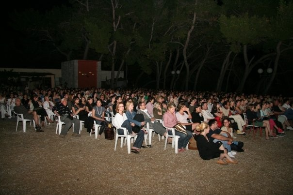 kino Bačvice